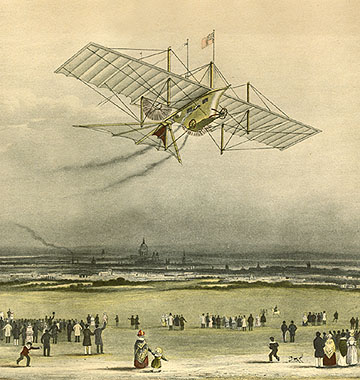 William Samuel Henson and the Aerial Transit Company's publicity engraving of the "Aerial Steam Carriage" of 1843, probably drawn by illustrator Frederick Marriott, who later founded "The Aerial Steam Engine Company" in California.